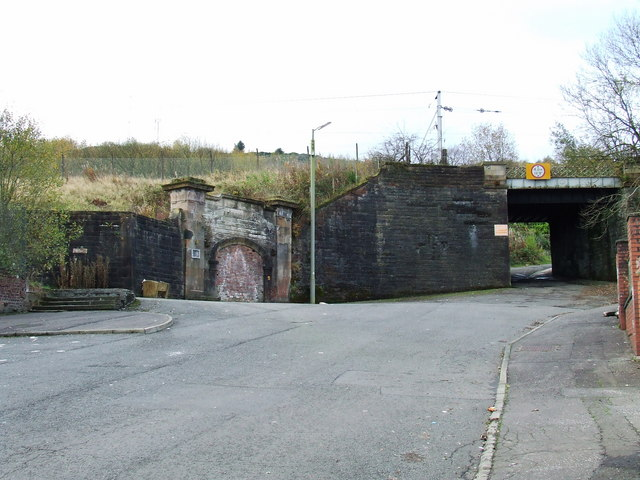 Site of Upper Greenock station Upper Greenock Station was on the Wemyss Bay line at Upper Lynedoch Street. The only remaining trace is this bricked up entrance. The bridge to the right carries the Wemyss Bay line.